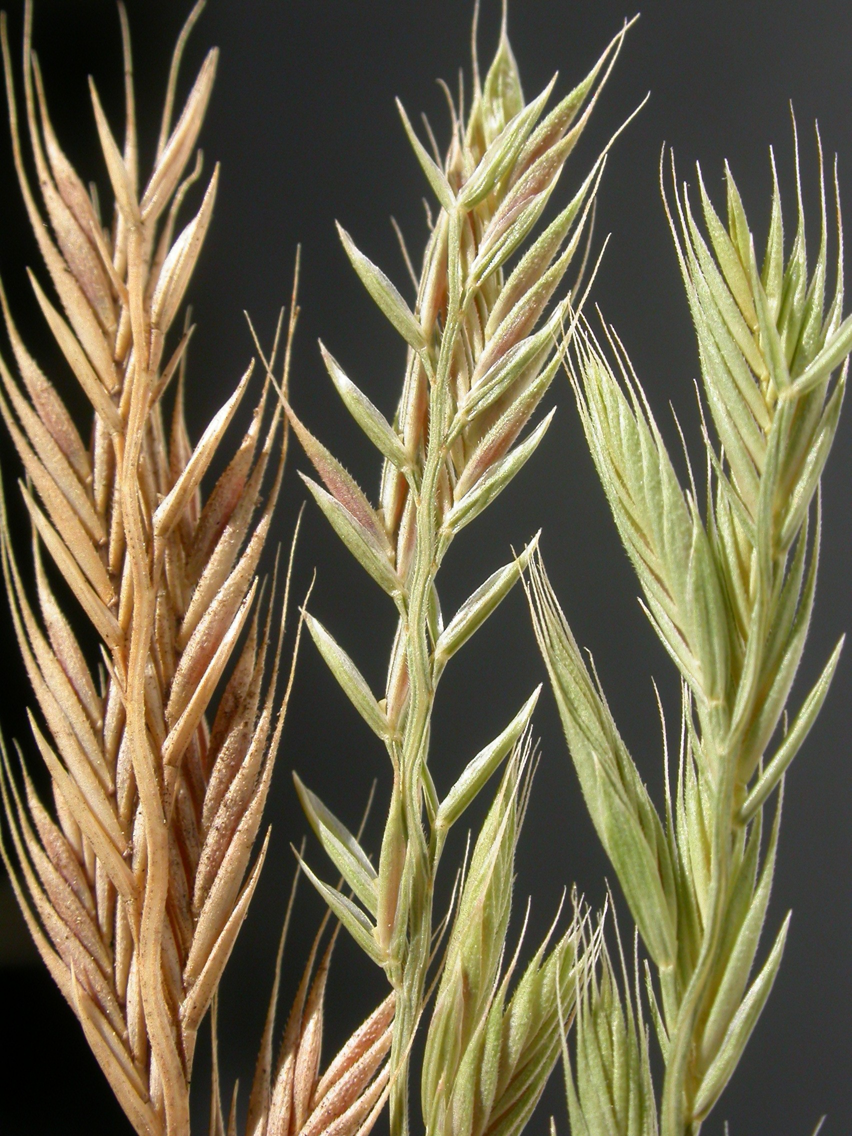 Vulpia octoflora in Norris, Montana, USA. "The spikelets of Vulpia are often slightly pedicellate and arranged in a secund fashionn along the main inflorescence rachis. Like other fescue grasses, the florets are typically rounded across the back and separate from each other along long rachilla internodes."